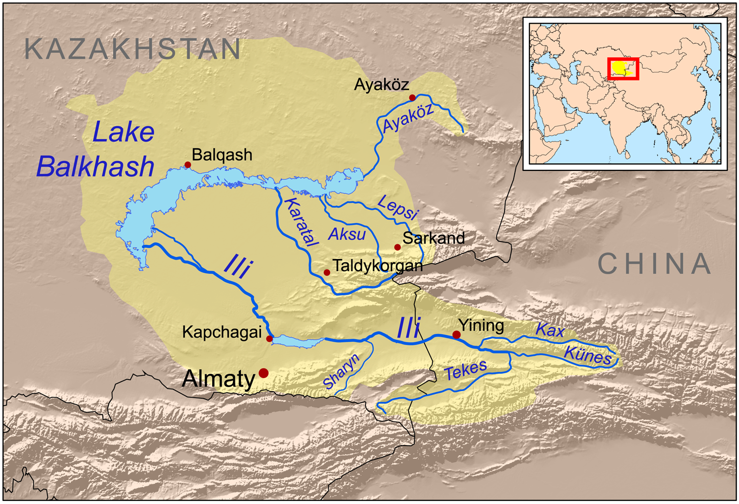 This is a map of the Lake Balkhash drainage basin, including the Ili River and its tributaries.